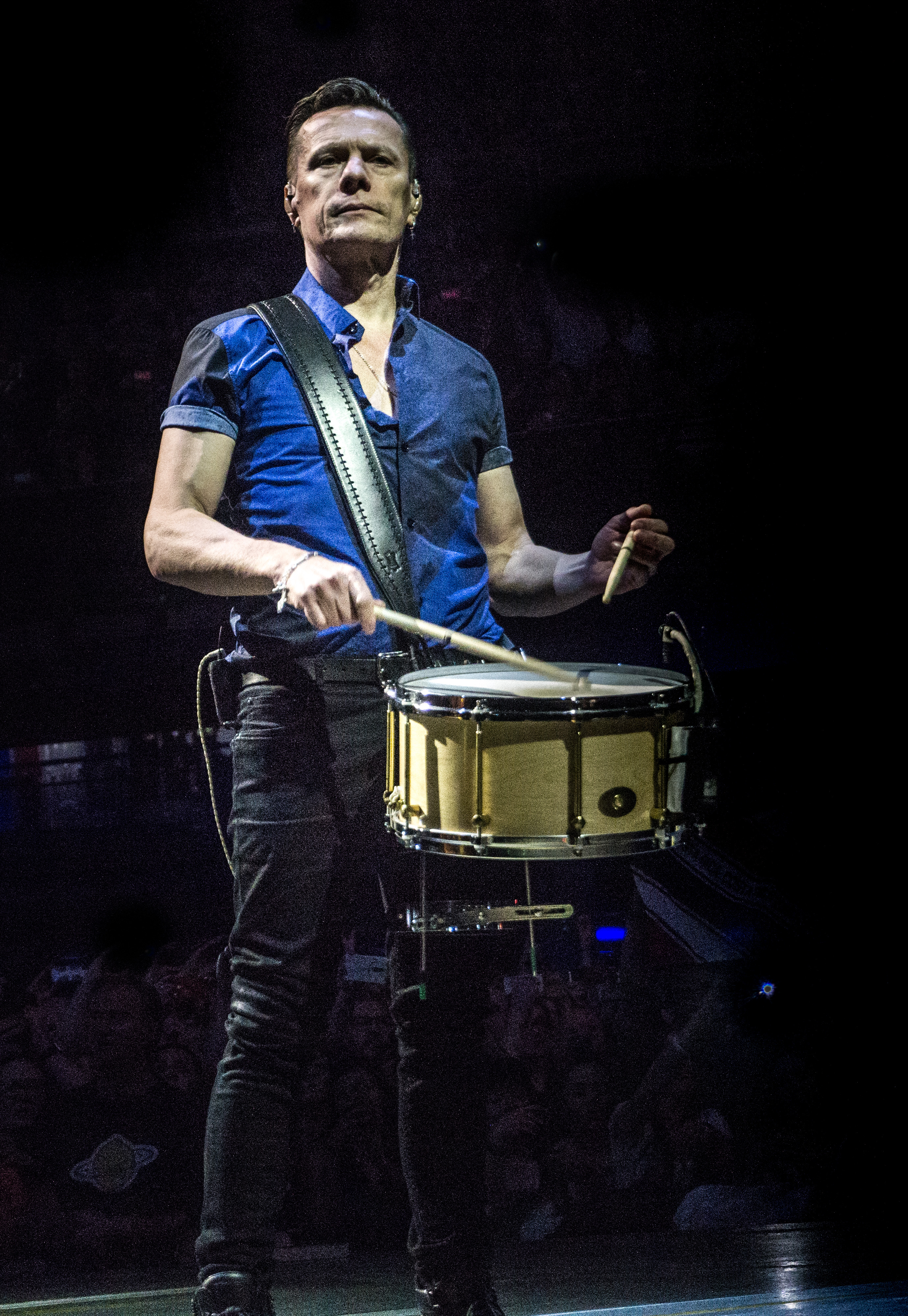 Larry Mullen Jr. performing with U2 on their Innocence + Experience Tour in Dublin, Ireland on November 27, 2015